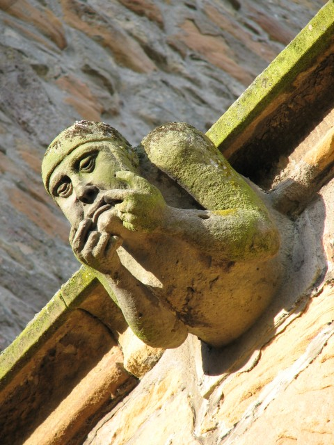 Gargoyle, Dornoch Cathedral